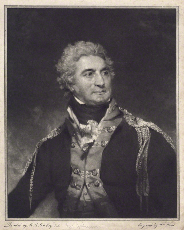 Portrait of John Henry Johnstone (1749–1828), Irish actor and singer.